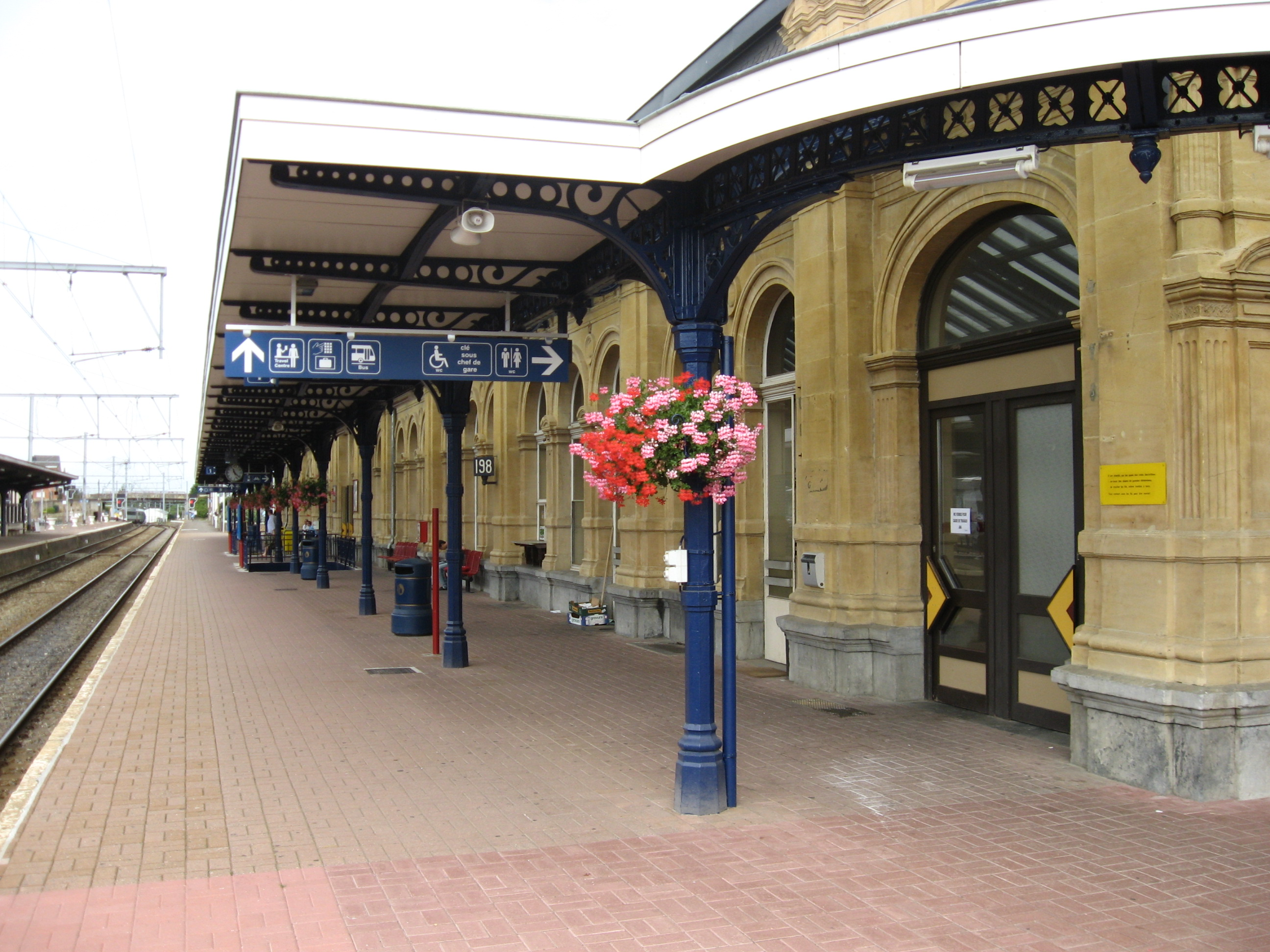 Arlon station